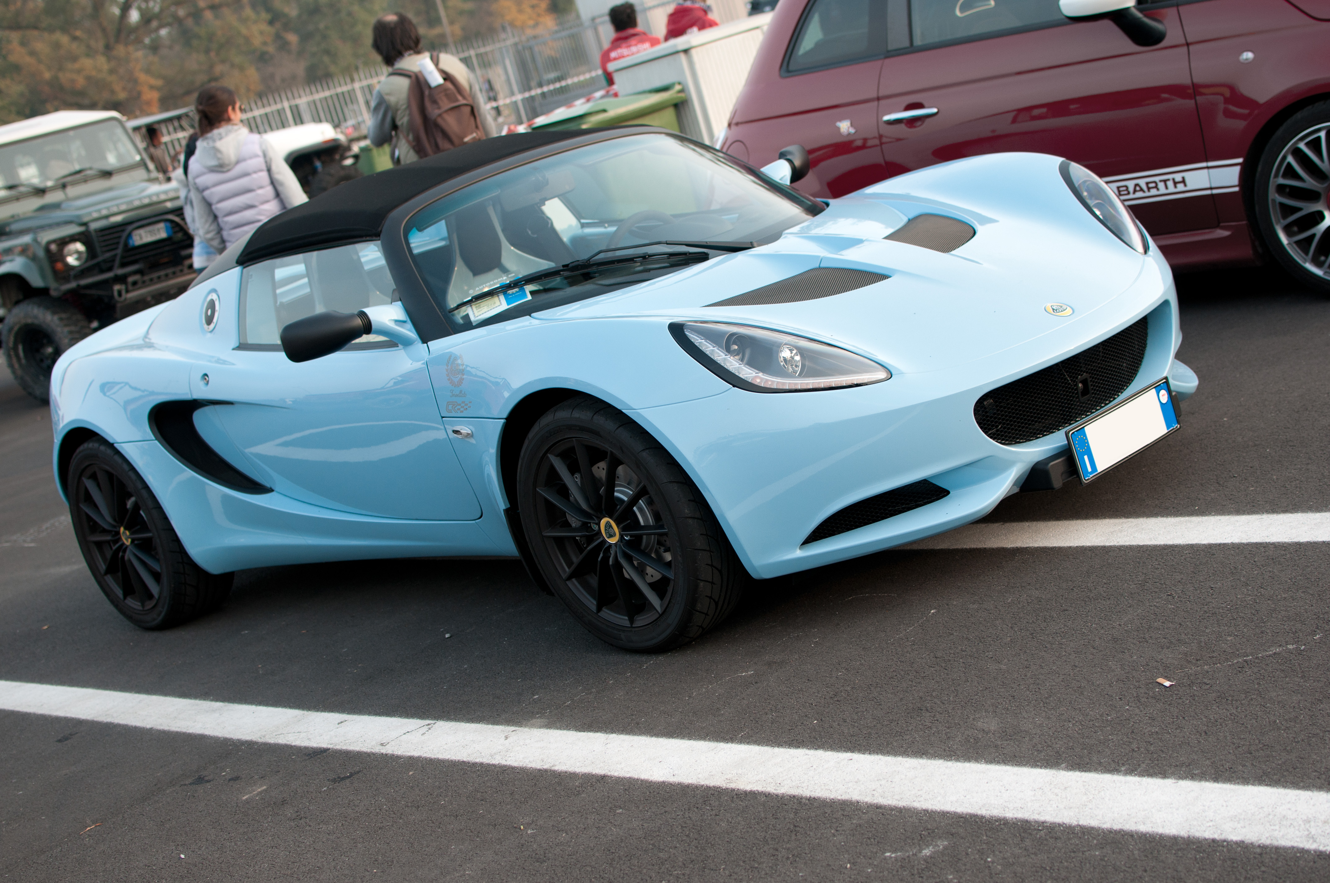 2011 Lotus Elise Club Racer at Monza Circuit, Italy